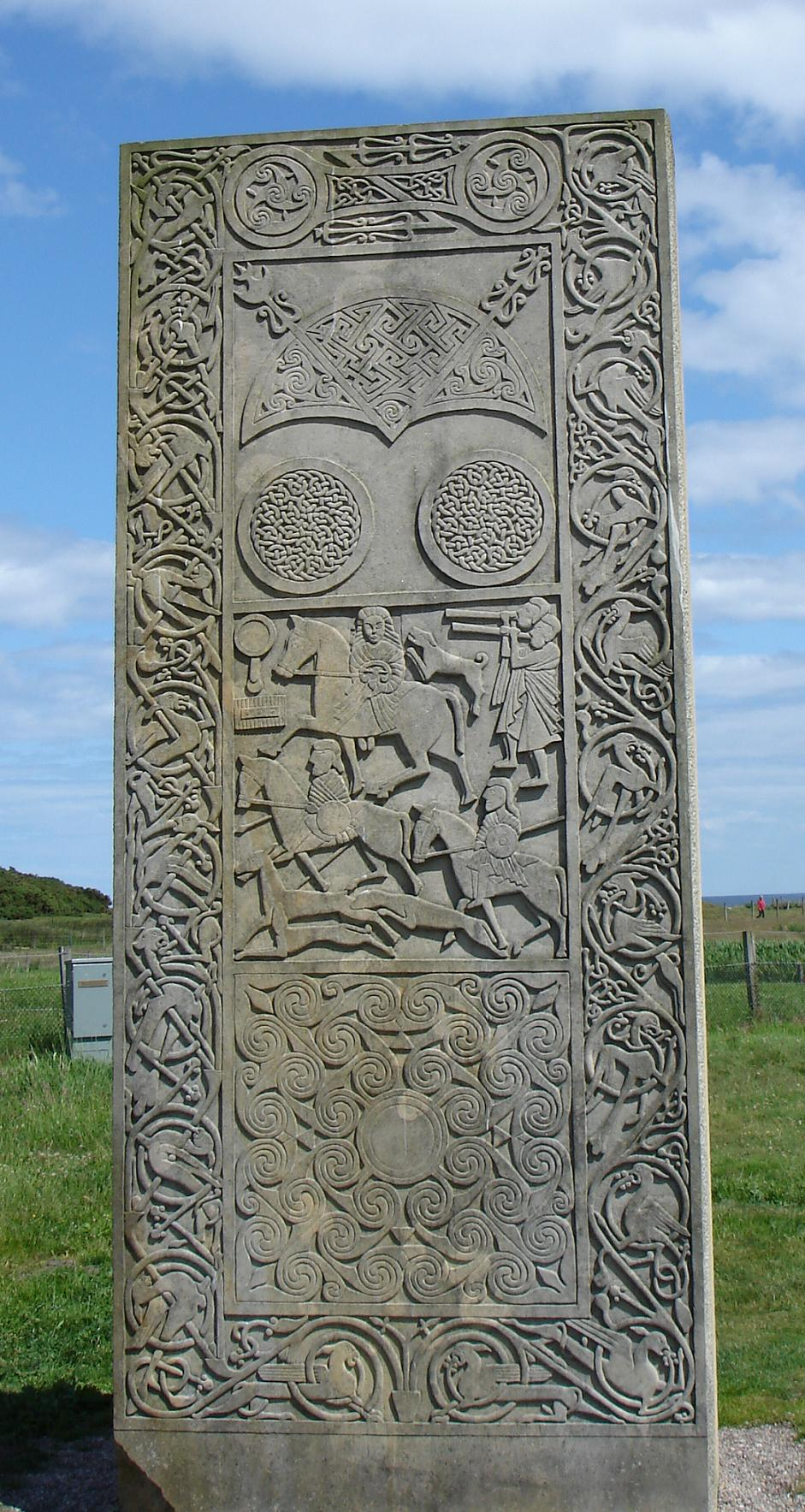 User's photograph.